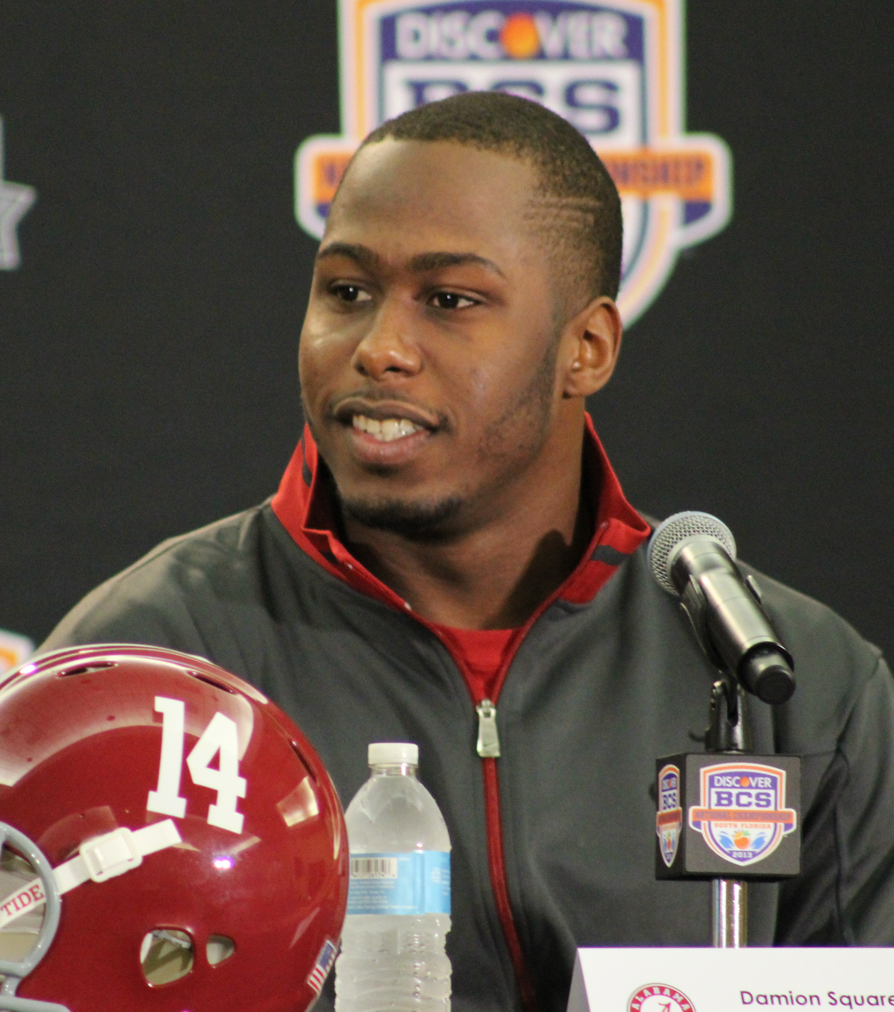 Damion Square in a Alabama press conference in January 2014.